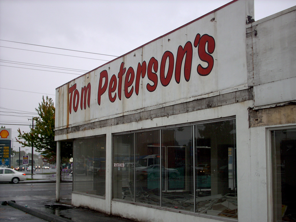 Photograph of defunct Tom Peterson's location.